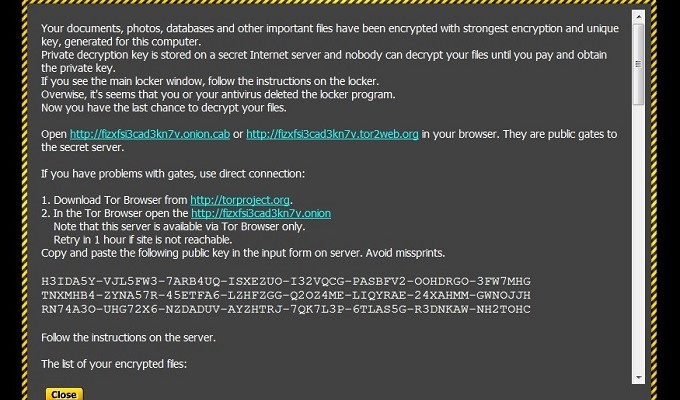 block